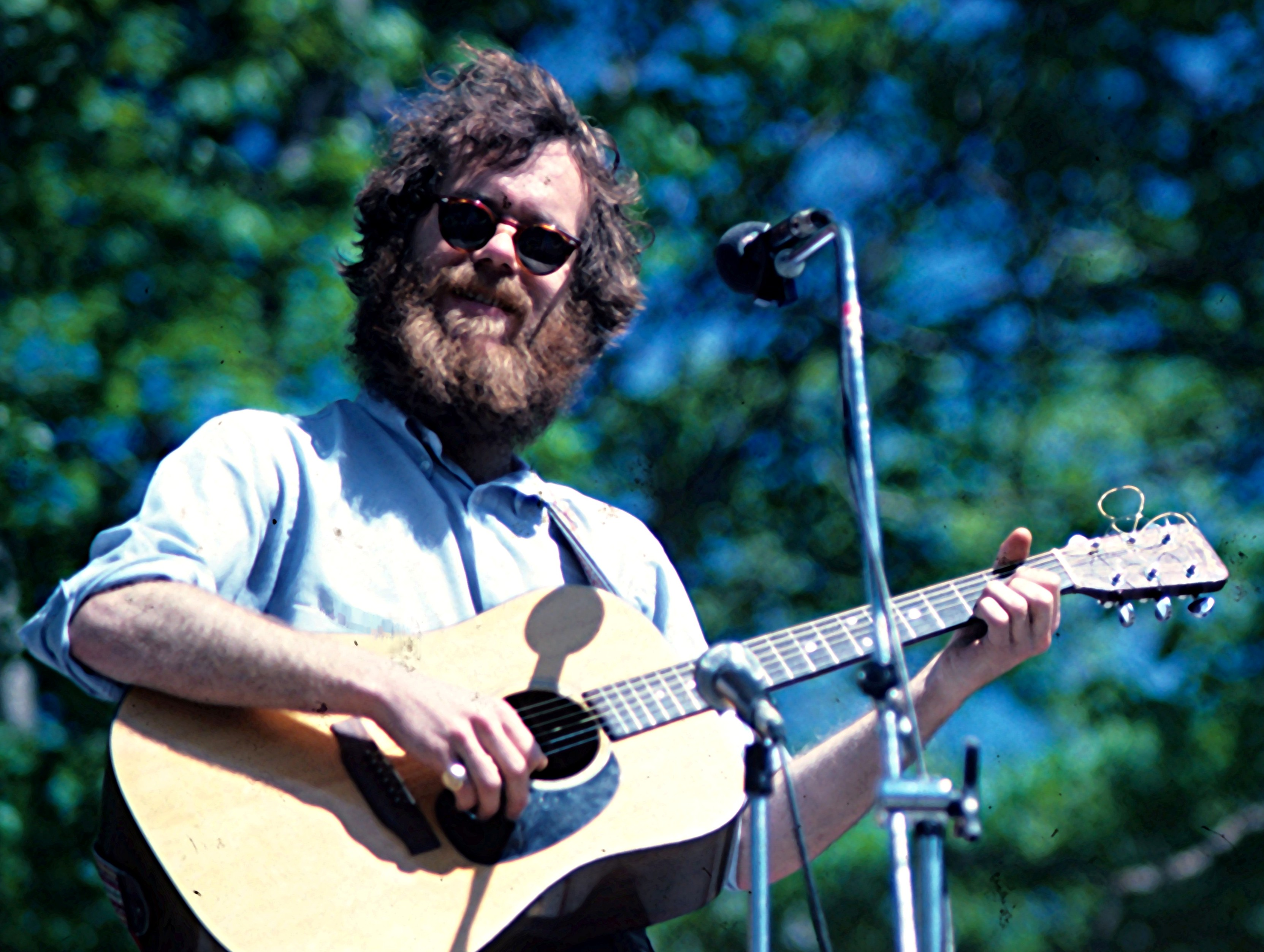 Loudon Wainwright III performing